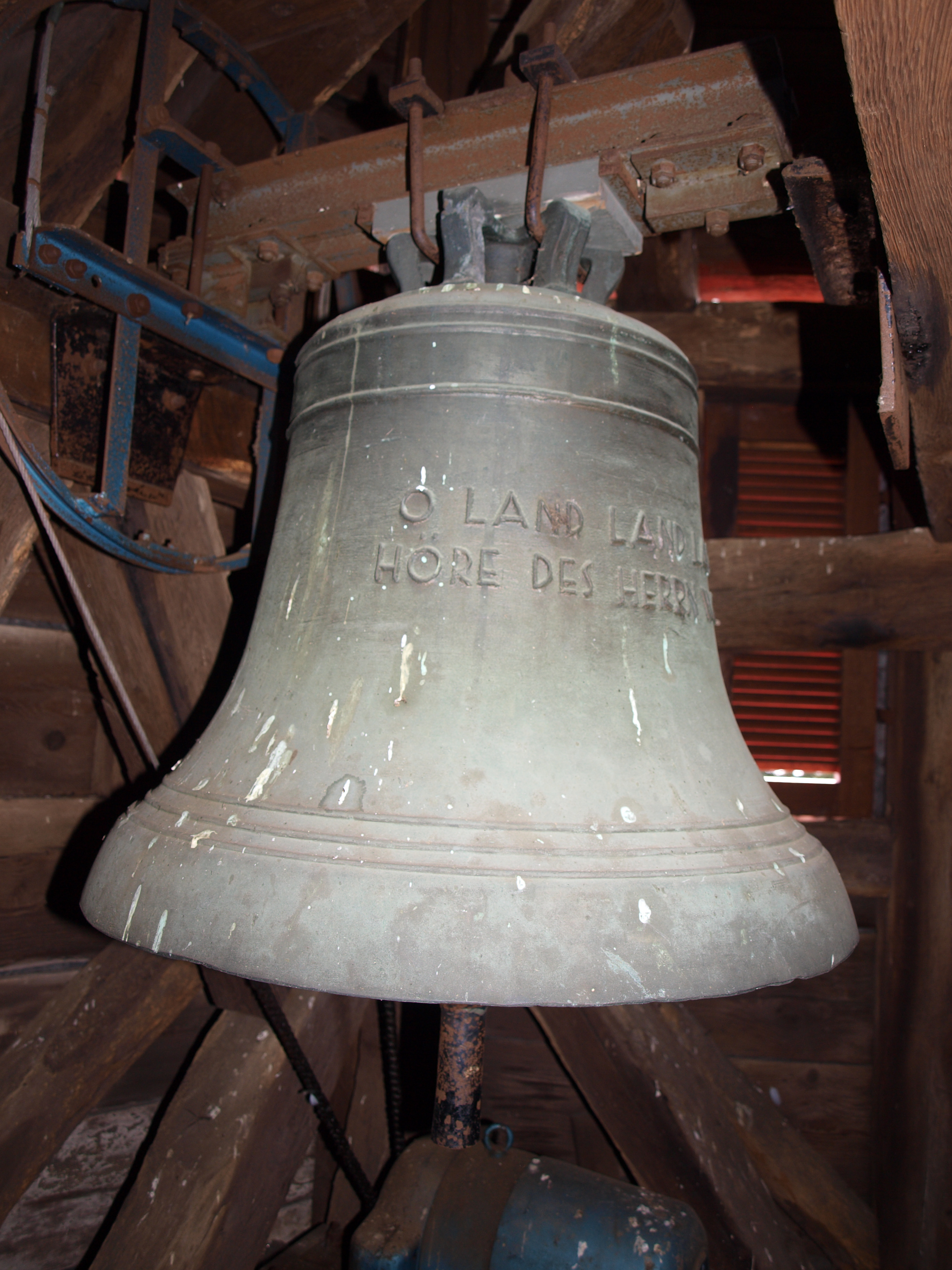 Small bell of the protestant church of Niederquembach, Schöffengrund, cast in 1950 by A. Junker.